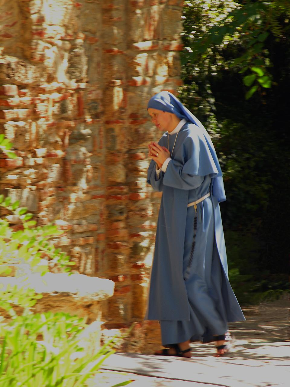 A nun entering the House of Virgin Mary in Turkey.